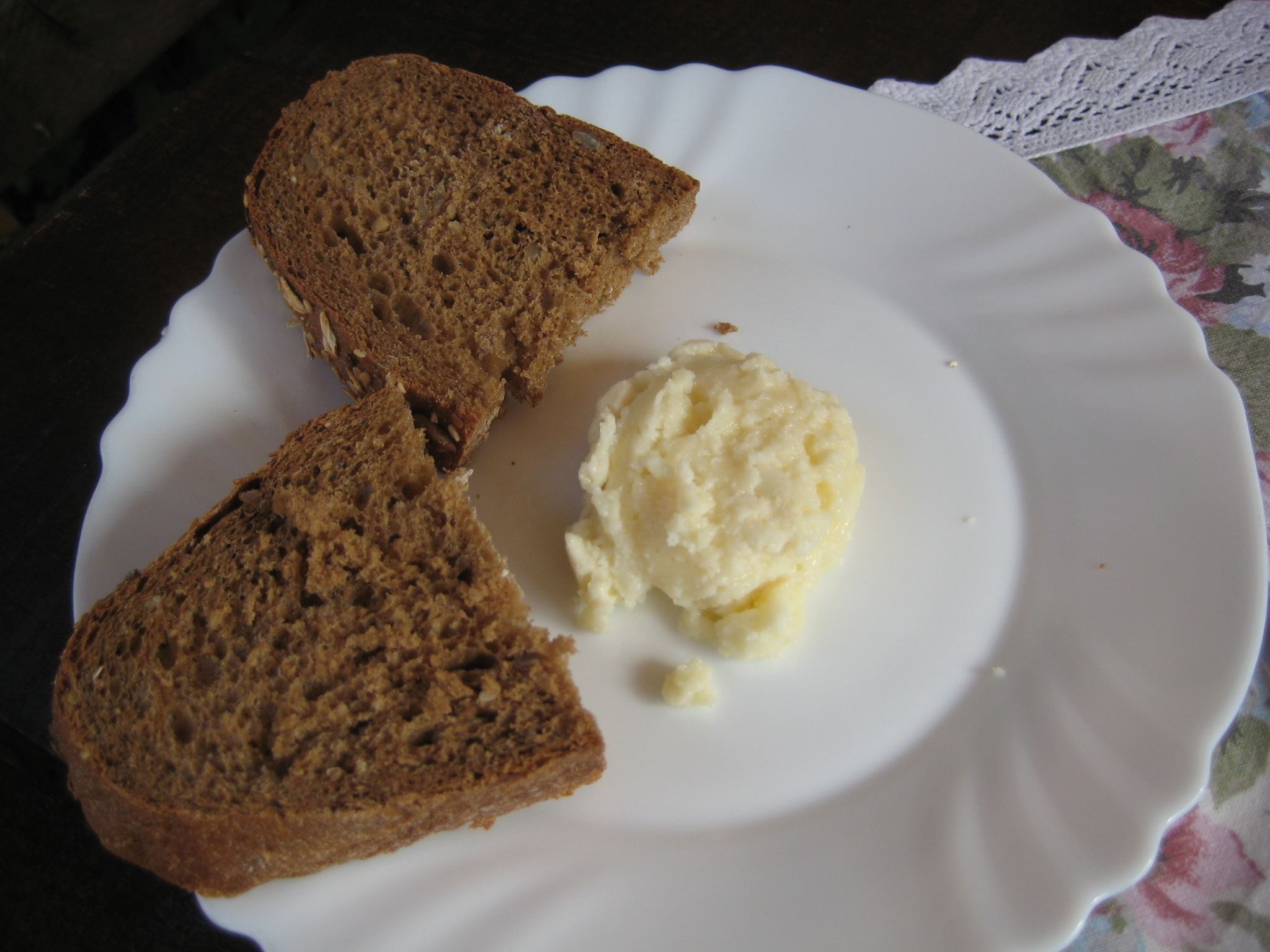 Mohant, slovenian cheese from Bohinj